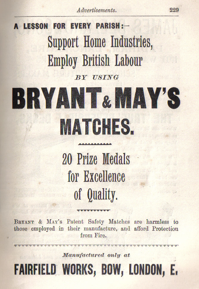 Bryant & May's Matches. Fairfield Works, Bow, London. From the Illustrated Guide to the Church Congress 1897